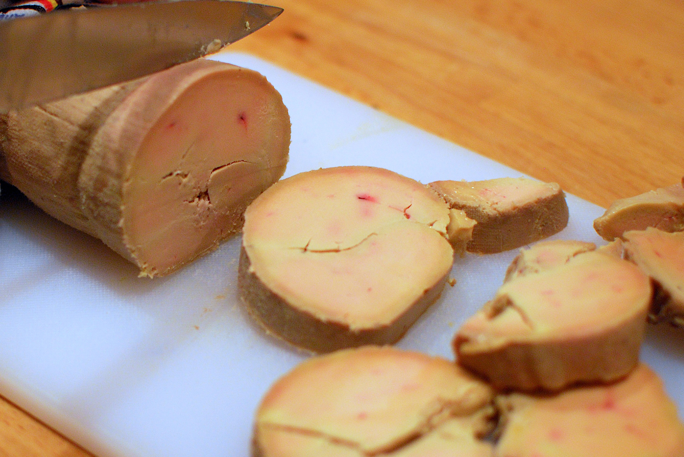 Cutting the torchon.